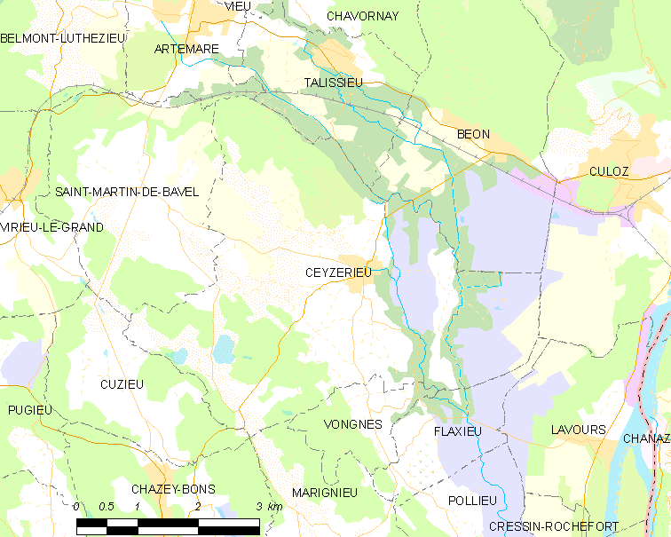 Map of French commune: Ceyzérieu Map commune FR insee code 01073.png